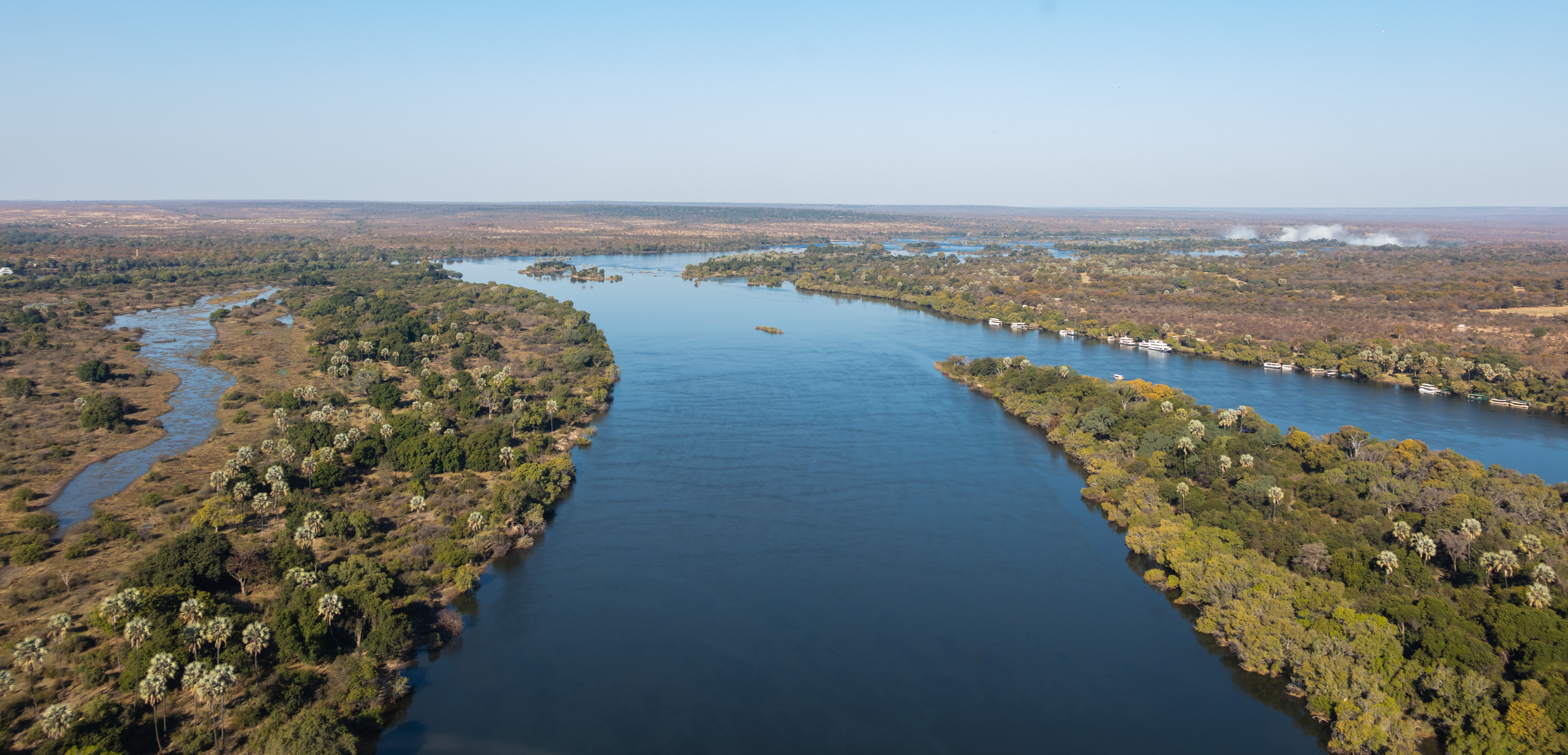 Zambezi River, Zambia-Zimbabwe